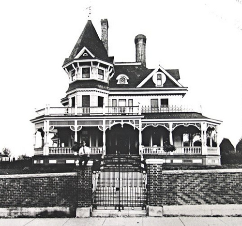 Henry Clay Lester House, Main Street, Martinsville, Virginia. An early self-made tobacco manufacturer, Henry Clay Lester built his elaborate Victorian gothic home on downtown Martinsville's main thoroughfare, home to many other mansions built by prosperous local merchants and manufacturers. Lester's home burned in the early 1940s. Many of the other early homes nearby were demolished. (Retouched by MarmadukePercy)